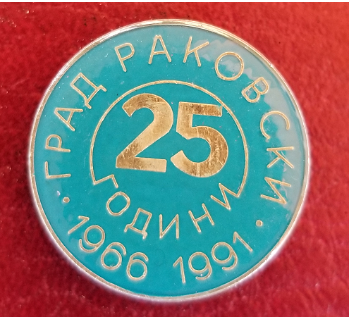 Jubilee badge 25 years since the founding of Rakovski town